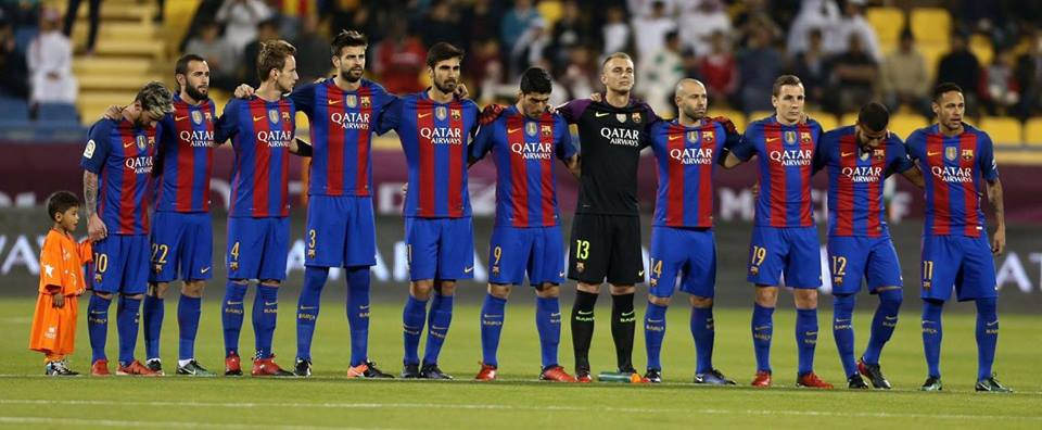 2016–17 FC Barcelona at the Match of Champions: Afghan boy Murtaza Ahmadi (left), who became a hit on the internet earlier this year with Lionel Messi jersey made from plastic bag, finally met his hero.